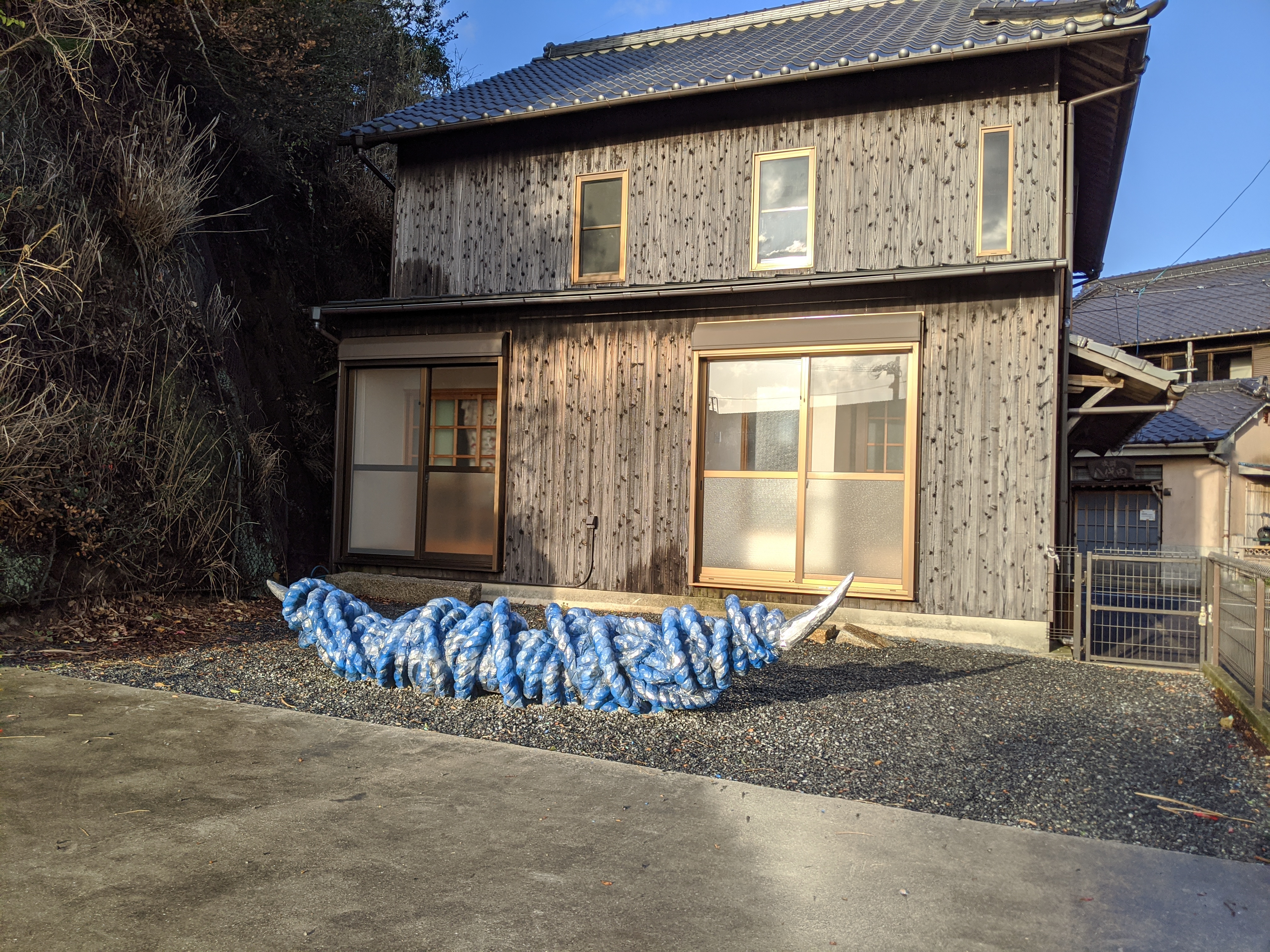 An artwork by a sculptor Kimura Shota in Naoshima Honmura Gallery.